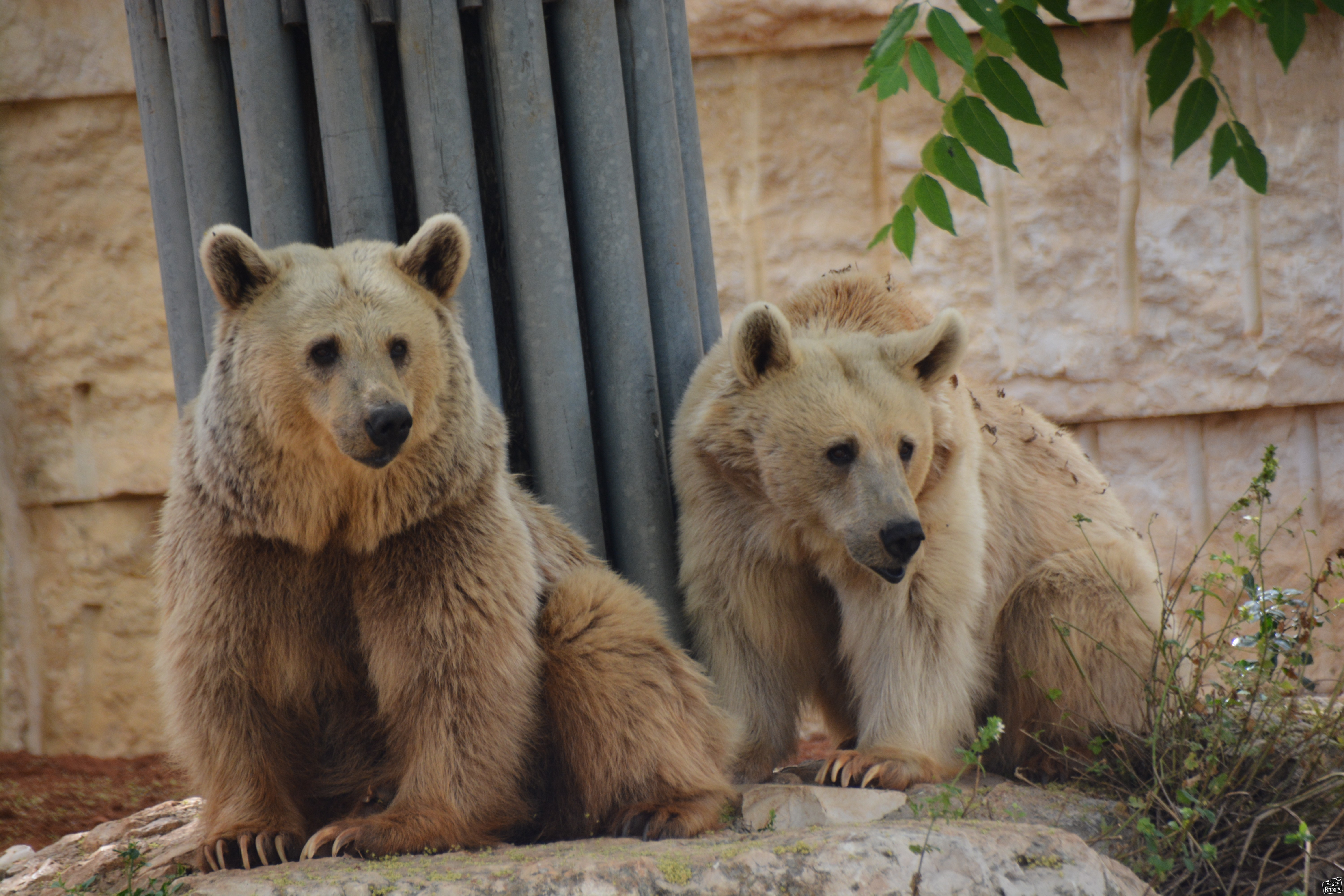 Biblical Zoo in Jerusalem